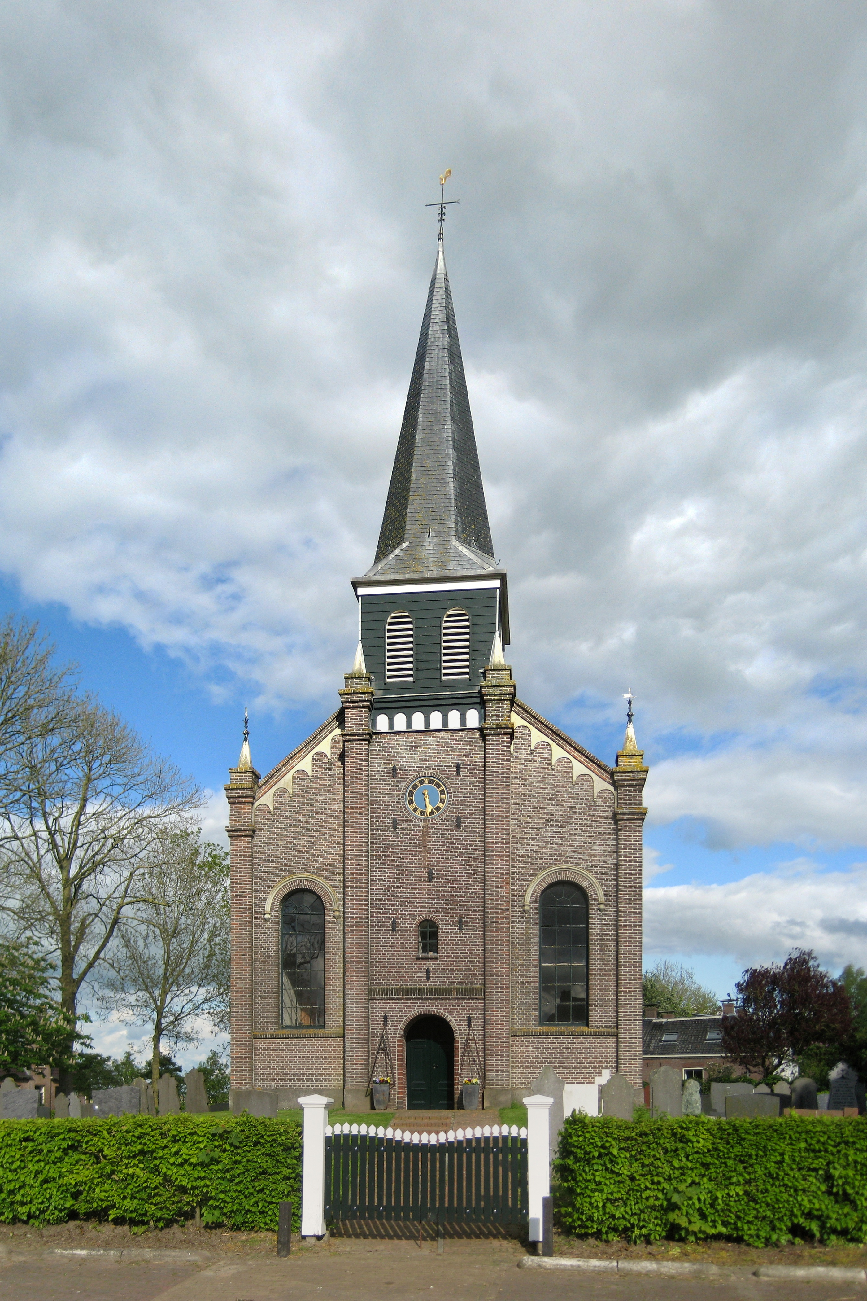 The Church of Wolsum, a village in the Dutch province of Fryslân.